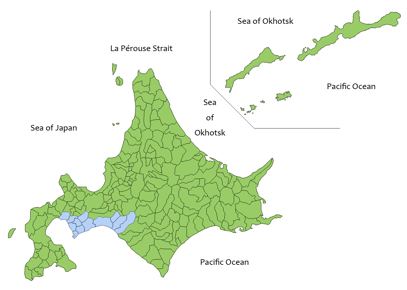 Map of Iburi subprefecture in English